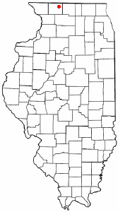 Category:Illinois city locator maps